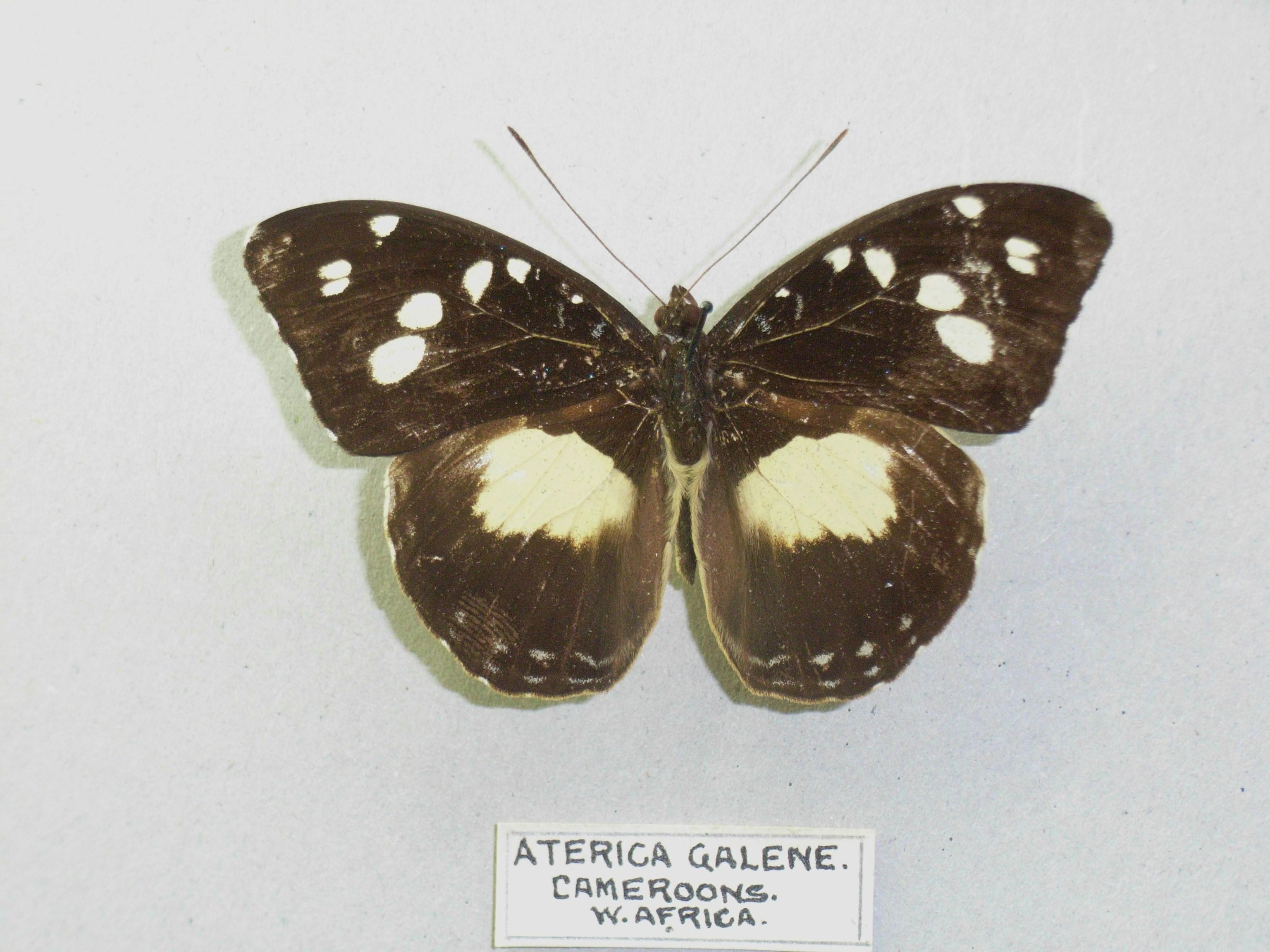 Aterica galene (Brown, 1776) Forest Glade Nymph:Limenitinae:Nymphalidae